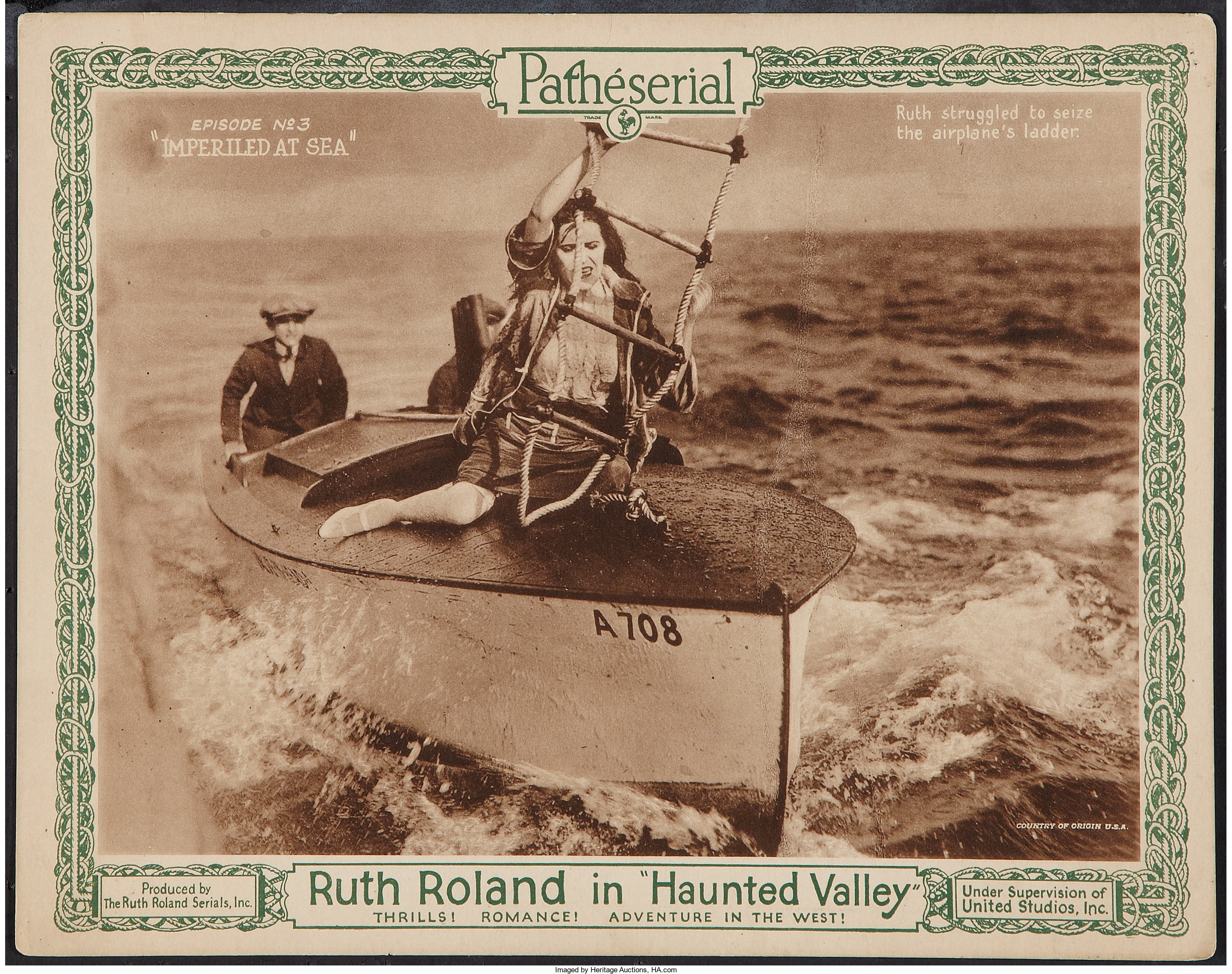 Lobby card for episode three of the American silent film serial Haunted Valley (1923). A search for renewal was done in both film and artwork for the years 1951 and 1952, producing no listings for the film title in artwork or motion pictures. There is no evidence of continuing copyright for the film or materials related to it.